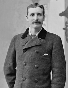 Portrait of Robert Emmet Odlum, the first man to jump off the Brooklyn Bridge.